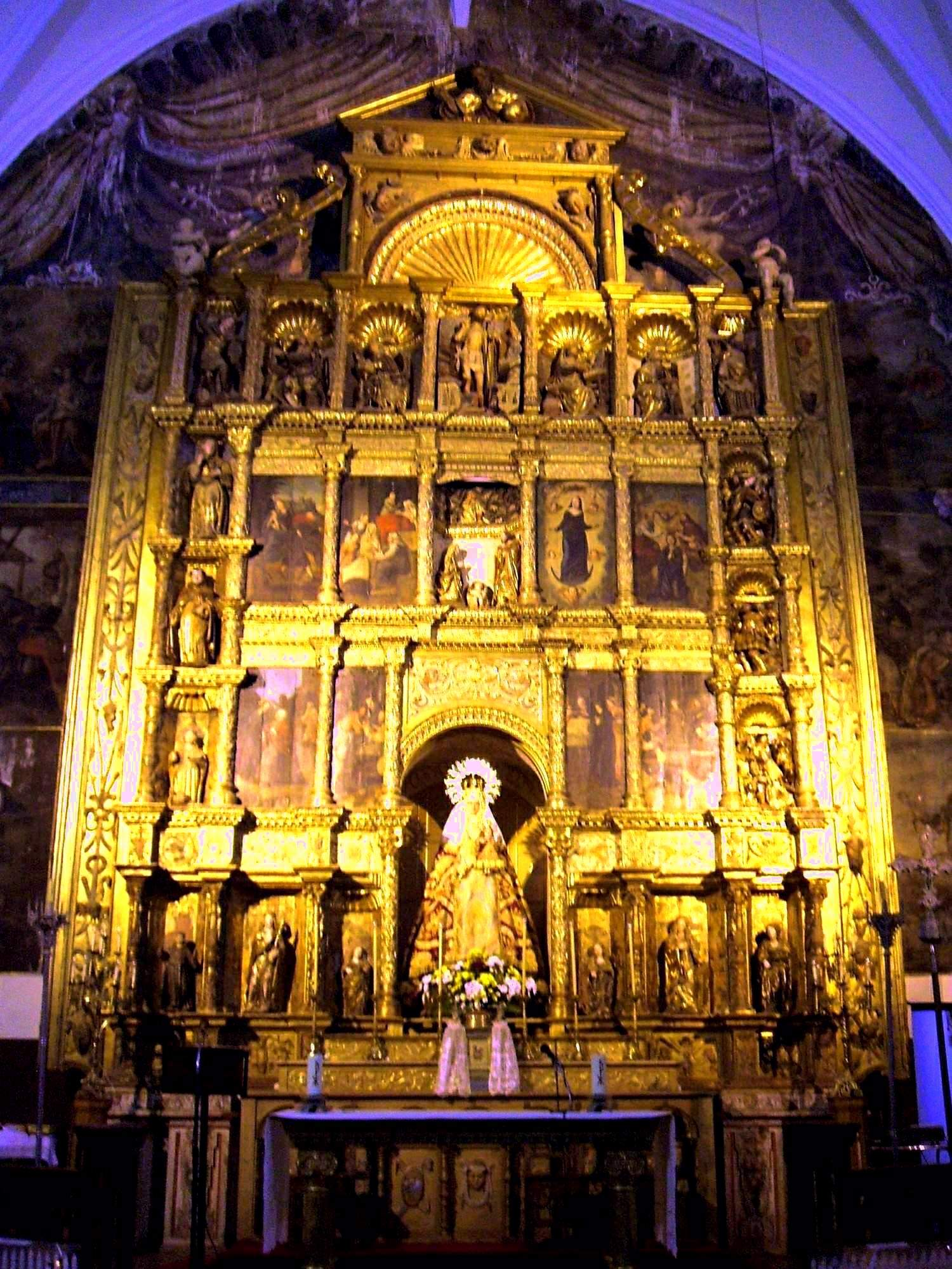 Retablo mayor plateresco (s-XVI) de la Iglesia de Nuestra Señora de Belén, en Carrión de los Condes (Palencia, Castilla y León, España)